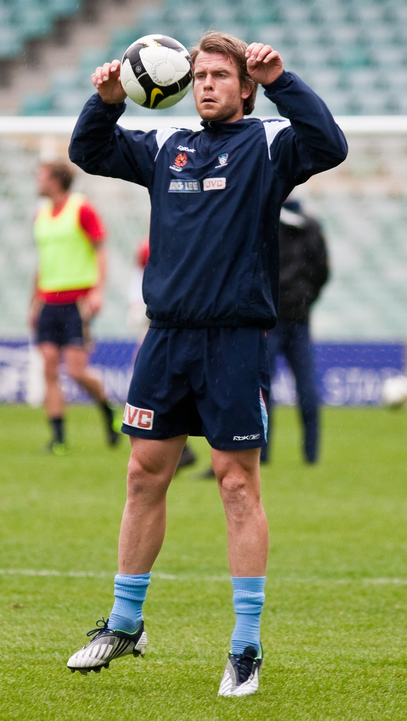 Stephan Keller warming up at a pre-season game between Sydney FC and Newcastle Jets.